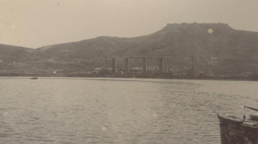 Bayan armoured cruiser sunk in the port of Port Arthur (Russian Empire), photographed on January 4 1905 (the day after the Japanese conquested it), as it appeared to Italian Admiral Ernesto Burzagli (1873-1944), Italian naval attaché in Tokio, who sailed from Yokohama (Japan) on a diplomatic mission to Port Arthur, during the Russo-Japanese War. The original picture, scanned by Emiliano Burzagli, belongs to the Private archive of Burzaghi family, Italy.